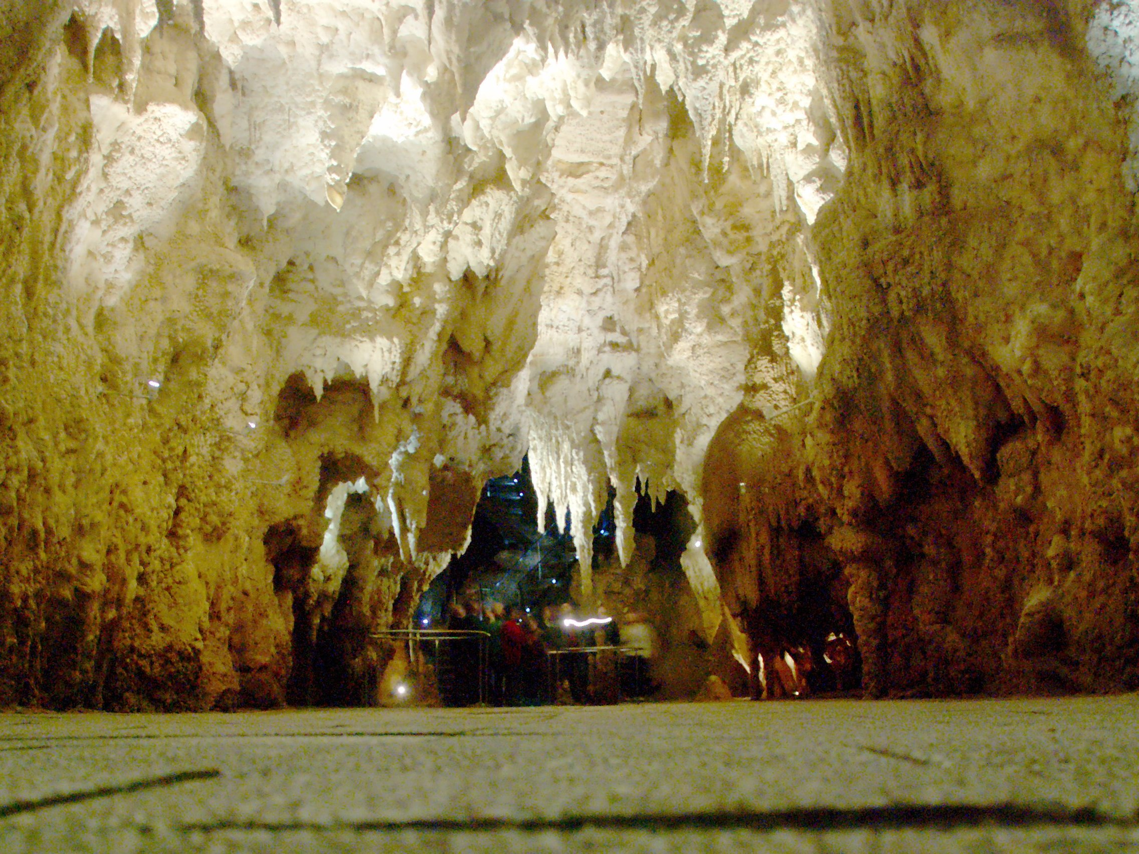 The Cathedral in the Waitomo Glowworm Caves system, looking back towards the main cave. Stairs up can just be discerned in the distant background. This was a 4 second exposure at ISO 800, without flash. Only a limited amount of cave lighting was turned on due to flooding at the time.